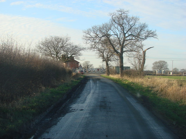 Joan Croft Junction, Level Crossing, Joan Croft Lane, Thorpe in Balne